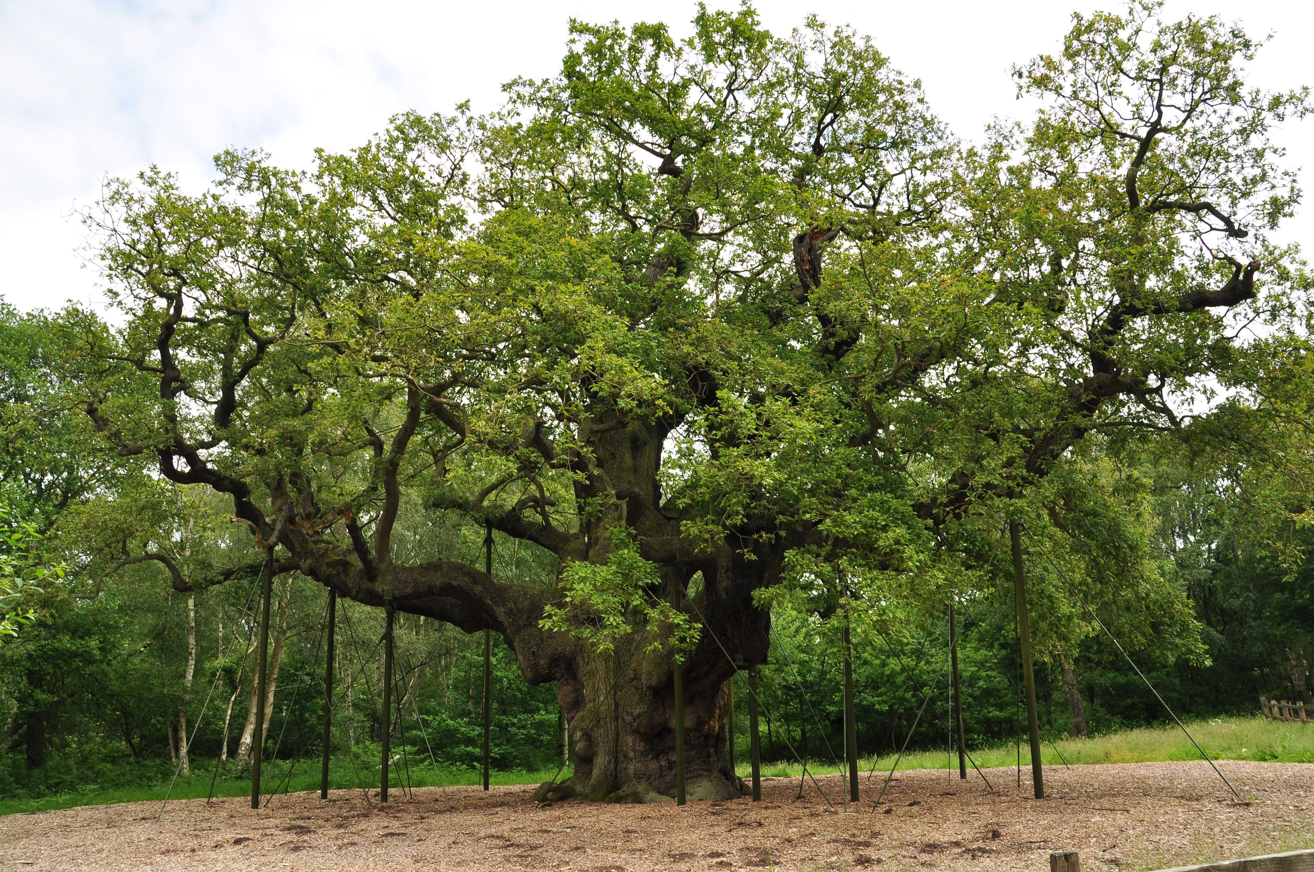 Major Oak